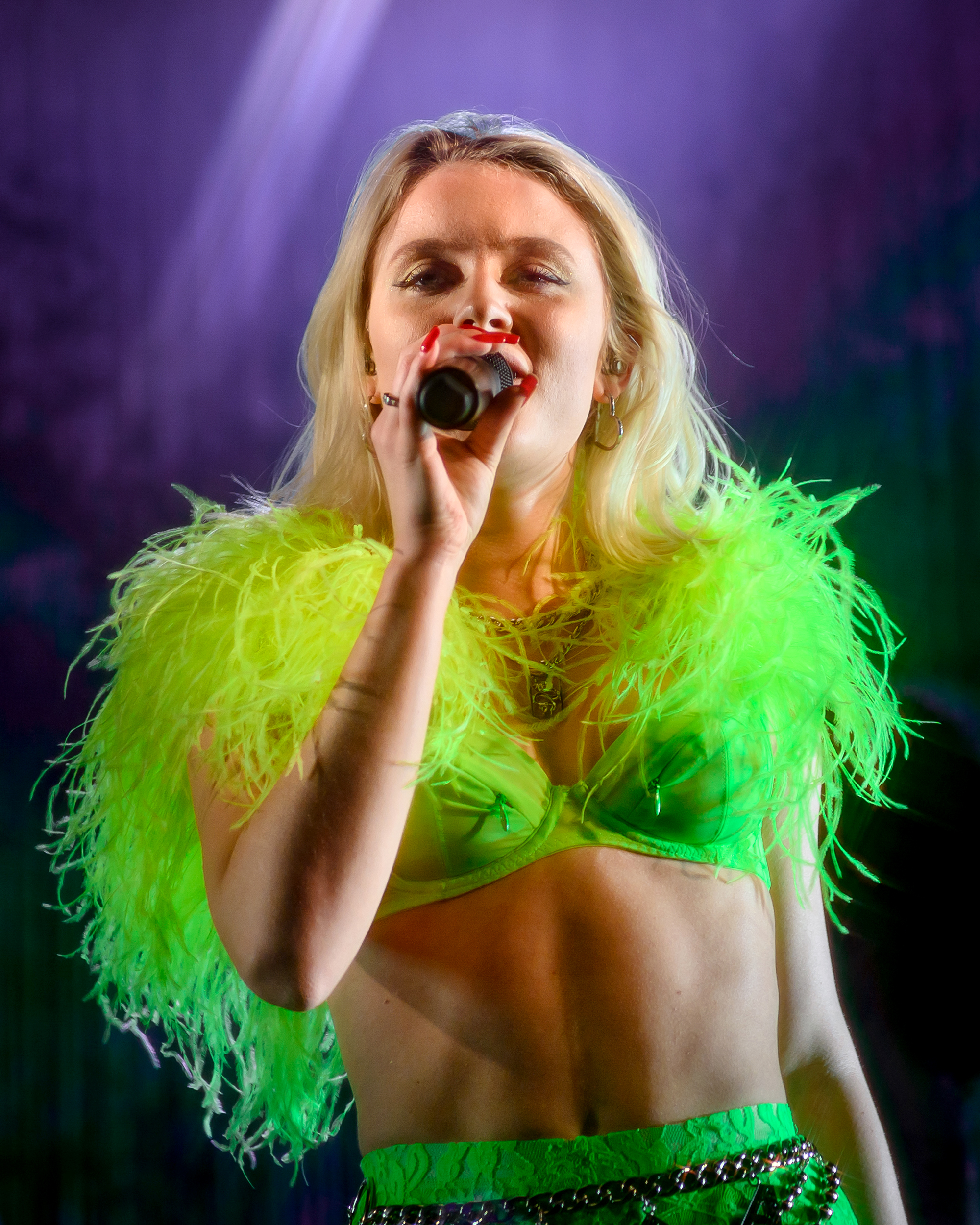 Zara Larsson performing live at The Observatory OC in Santa Ana, Orange County, California, on Thursday, May 2, 2019. Shot for PassTheAux.